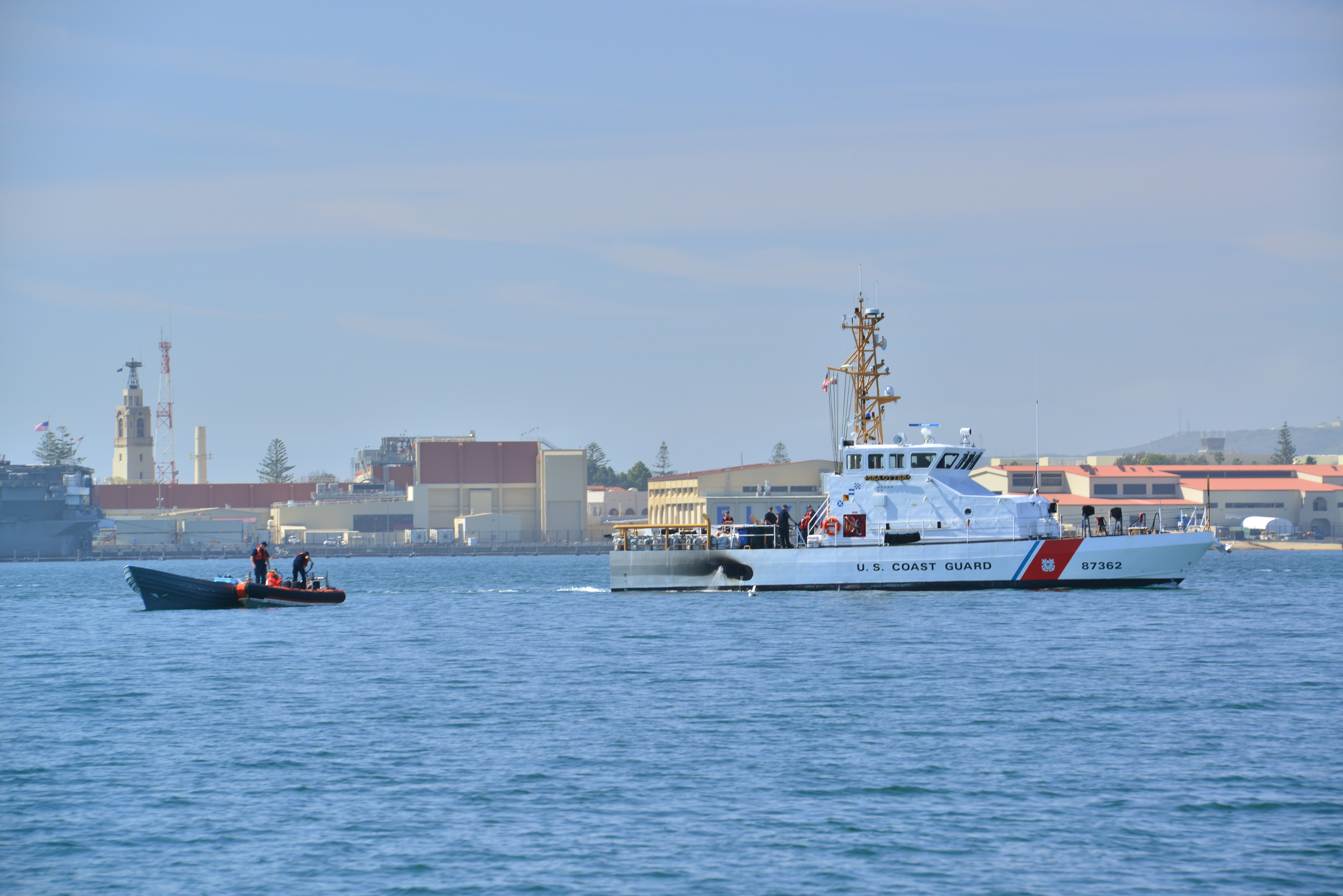 Coast Guard Cutter Sea Otter crew members tow in a panga after the successful interagency efforts interdicted approximately nearly 1,300 pounds of marijuana 120 miles south of San Diego, March 10, 2015. A Customs and Border Protection aircraft crew first spotted the panga and a Coast Guard Station San Diego crew stopped the vessel. (U.S. Coast Guard photo Petty Officer 2nd Class Rob Simpson/released)